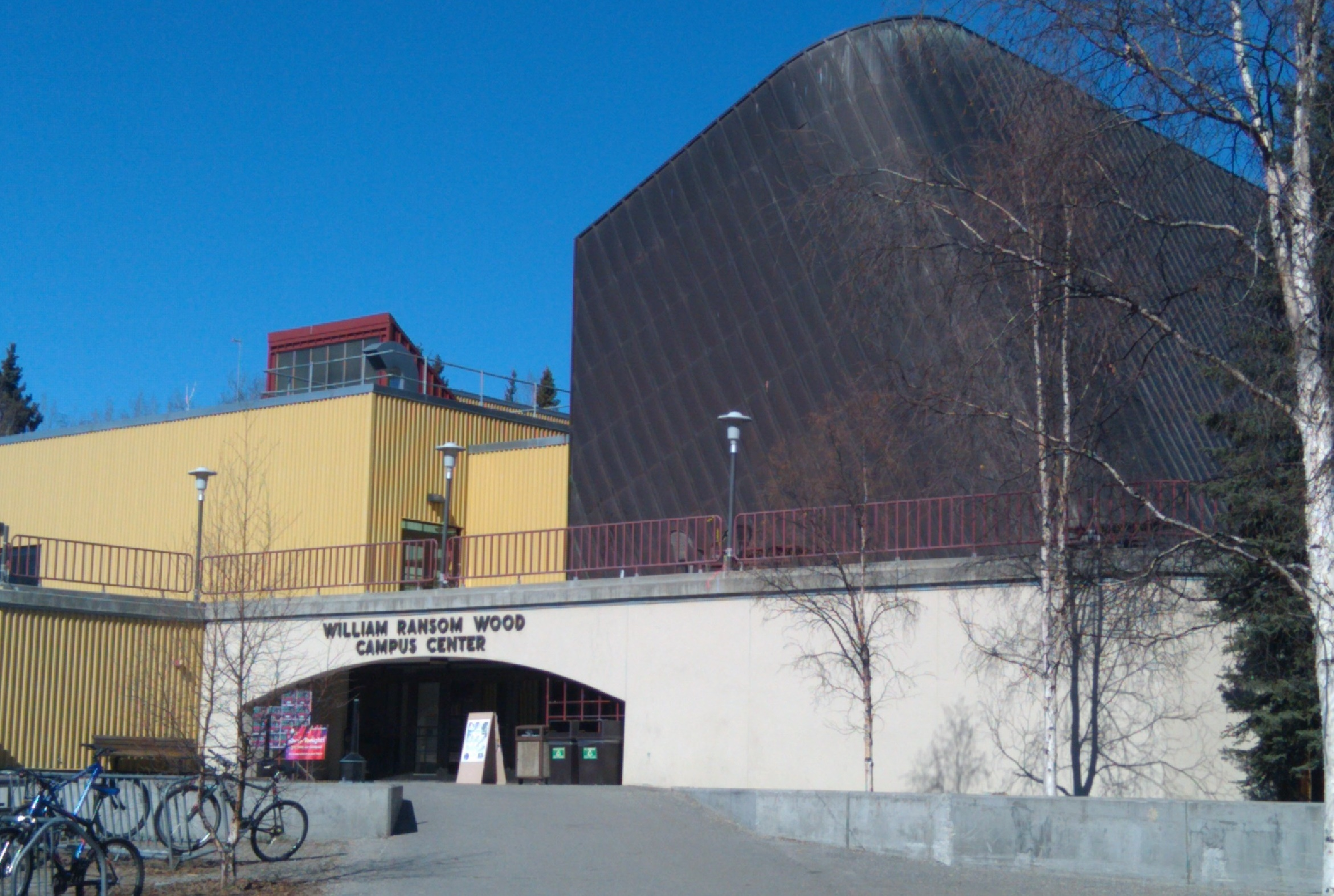 The William Ranson Wood Campus Center at the University of Alaska Fairbanks.